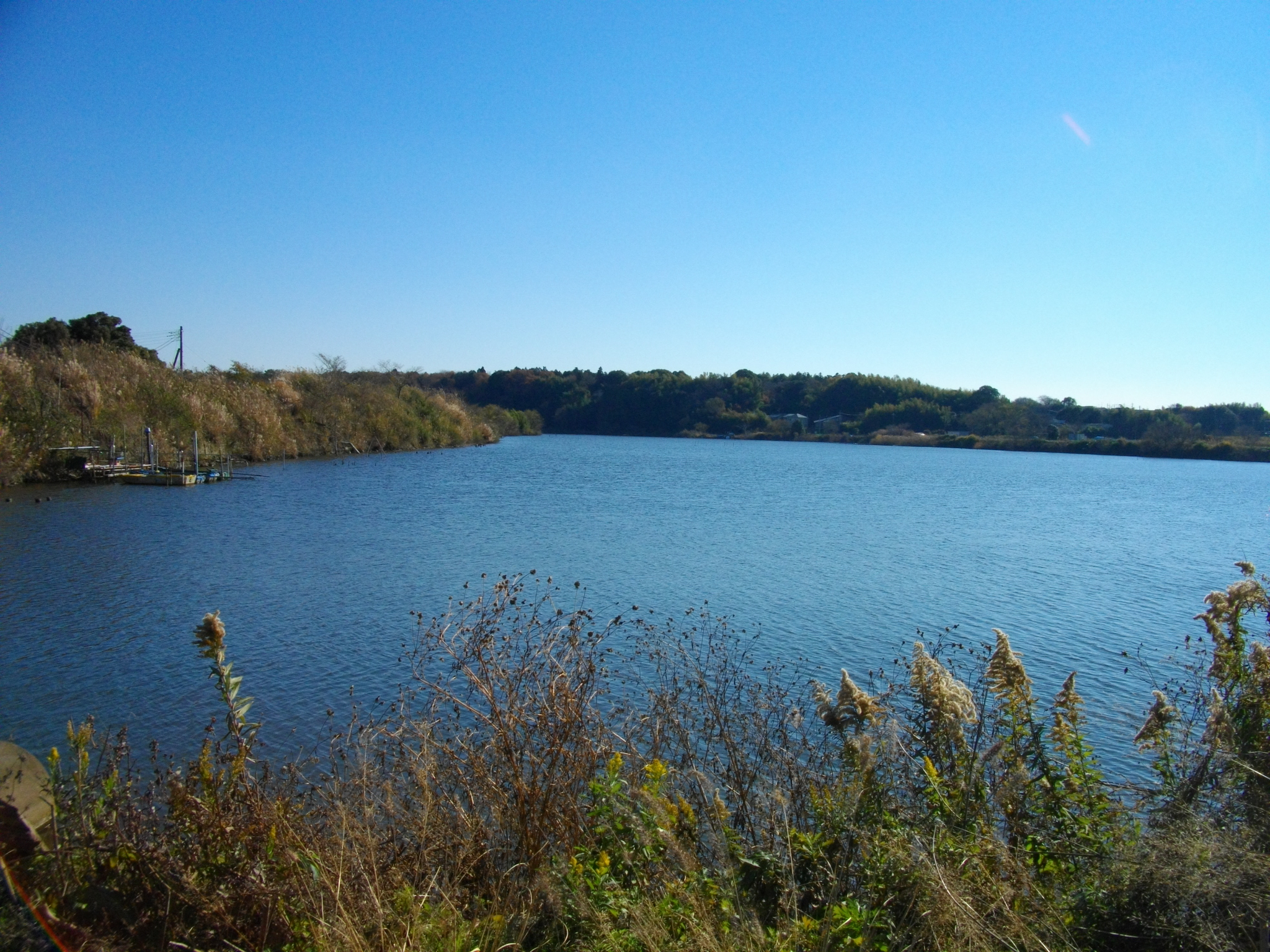 Furu-Tone-numa